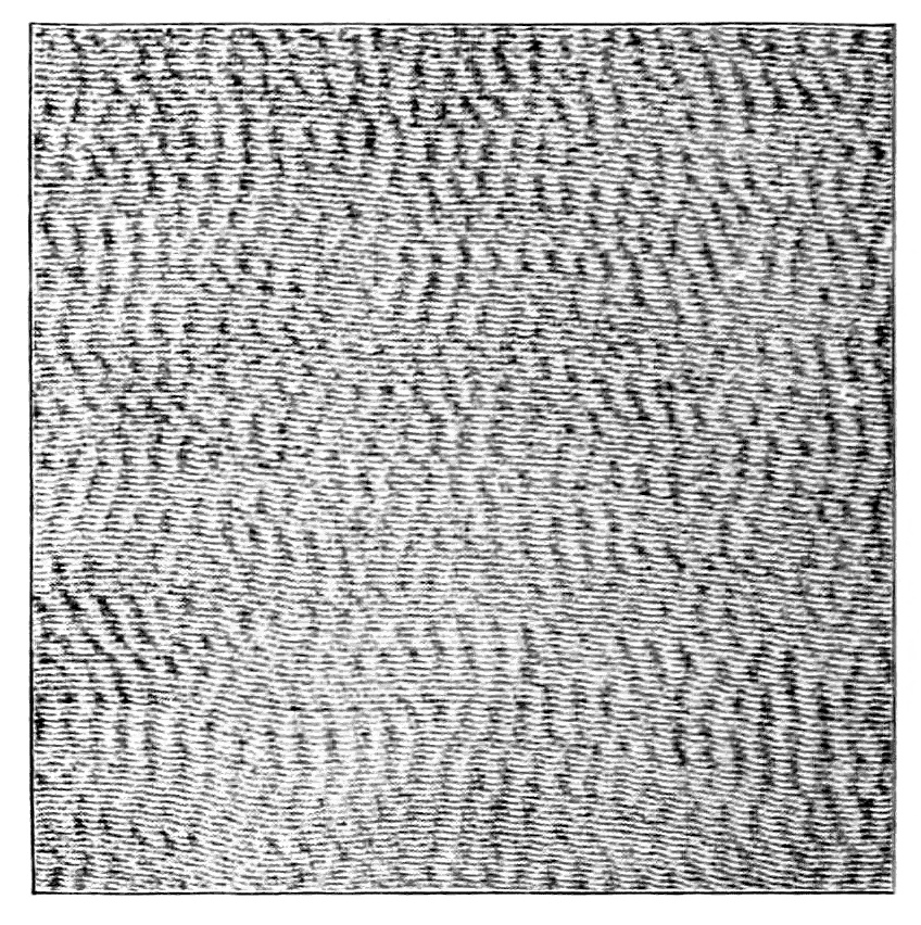 Page 262--illustration/photo from scan of book "Jinrikisha days in Japan" (1891) by Eliza Ruhamah Scidmore. Caption: Kabe habutai